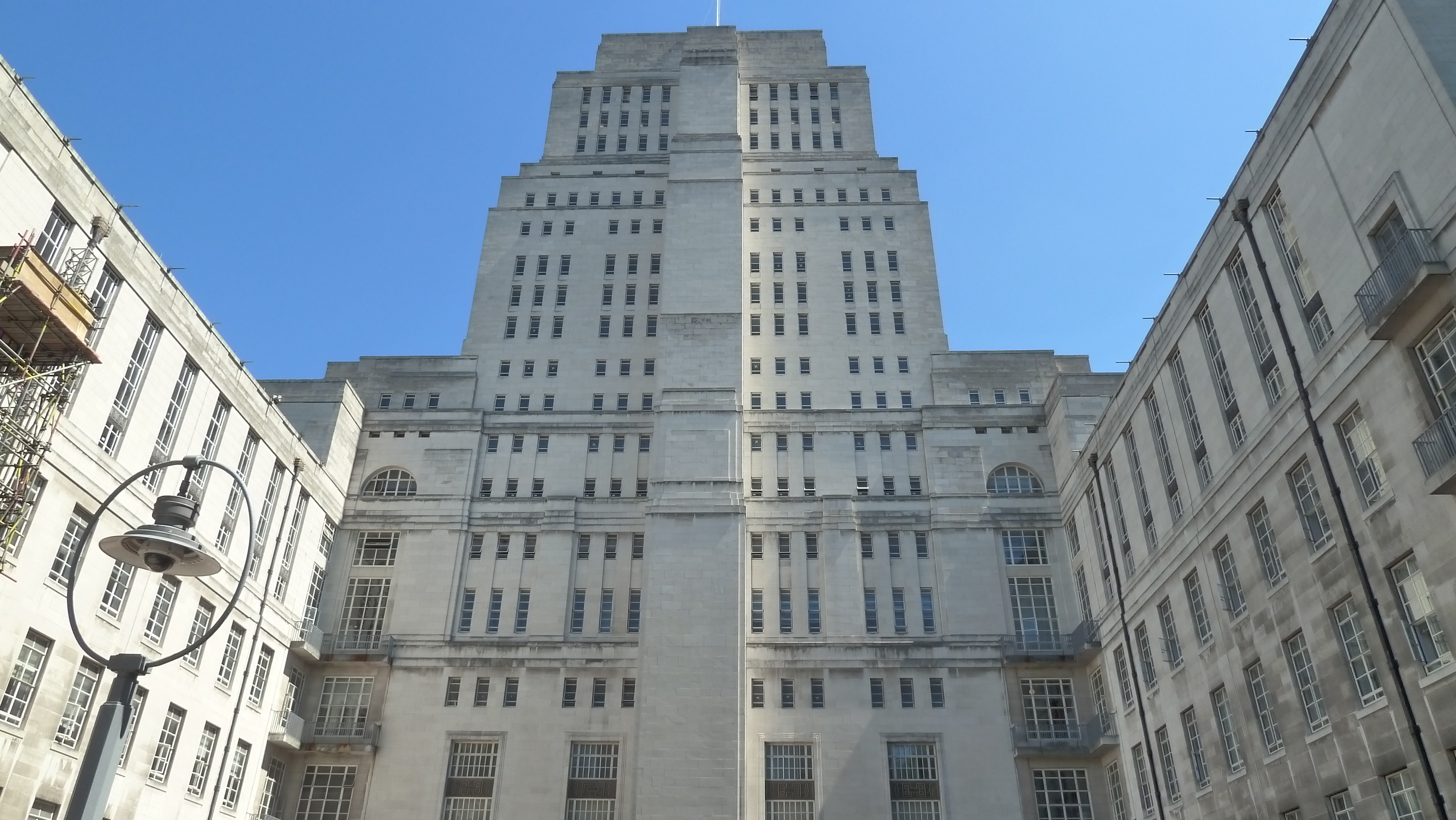 Senate House of the University of London